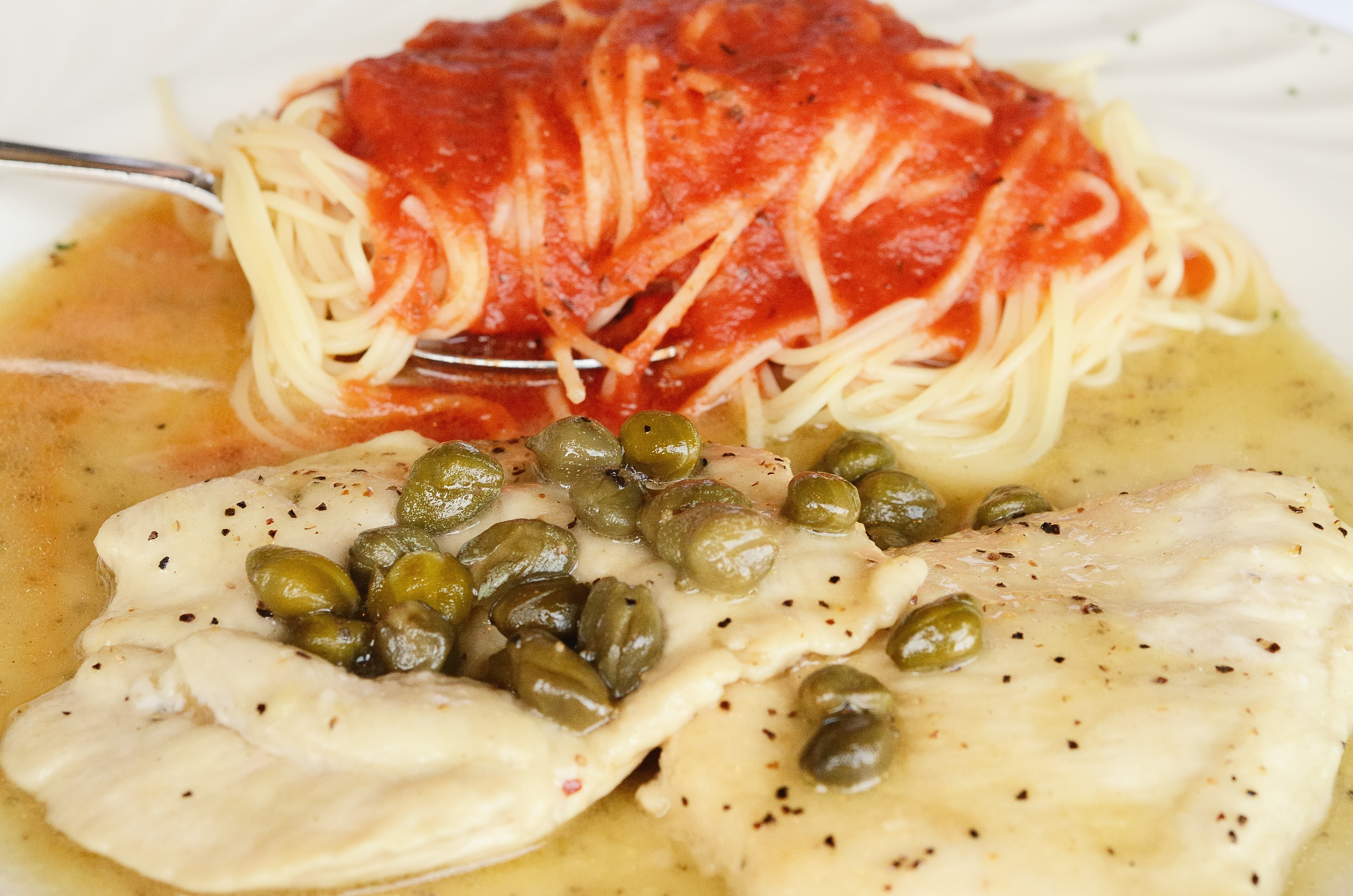 Chicken piccata with capers & white wine with capellini & tomato sauce at Bongiorno Italian Restaurant in Mountain Brook, Alabama. Had it for lunch today.